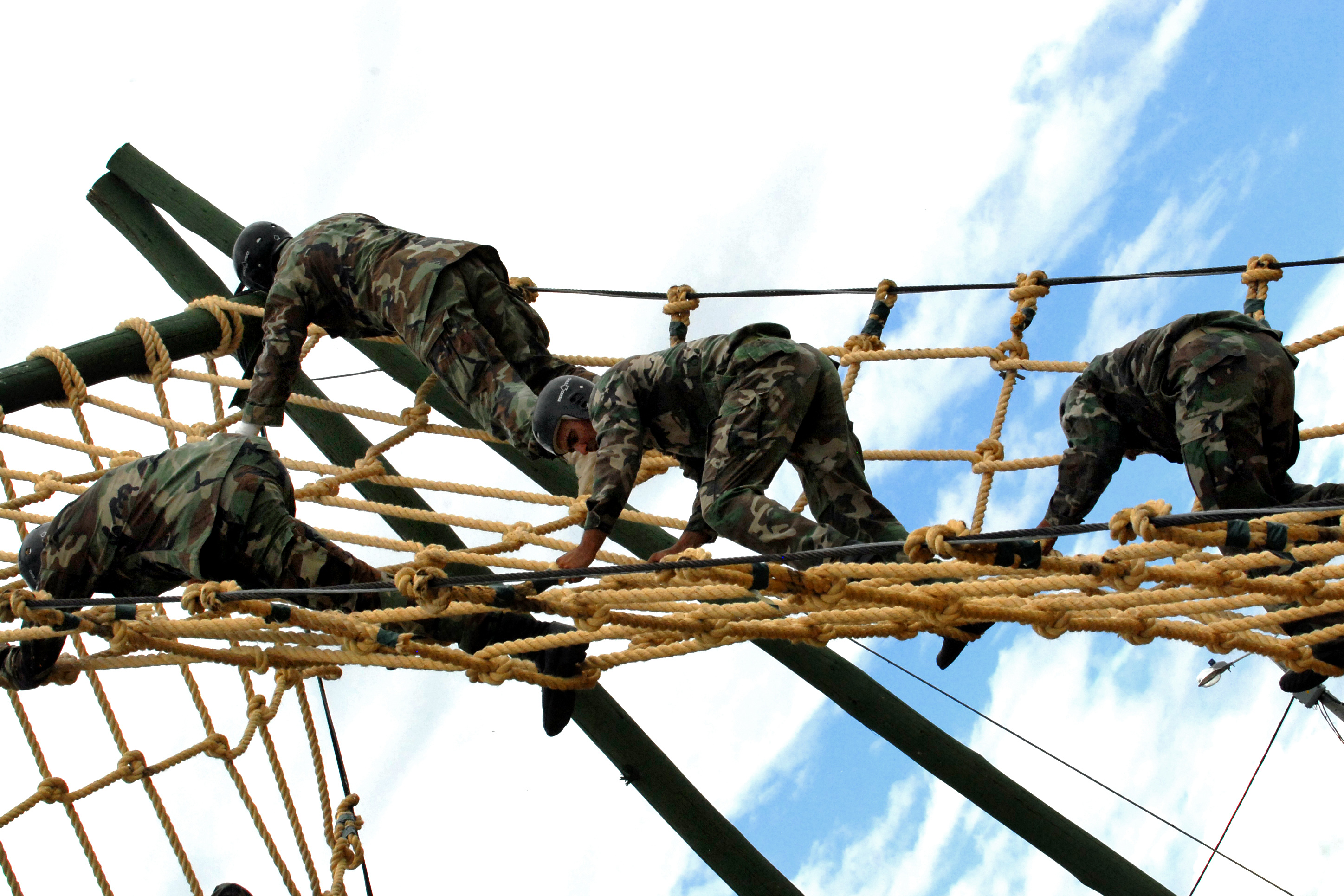 Special operations team members from Uruguay climb their way up the cargo net during Fuerzas Comando 2012 at the Colombian National Training Center on Fort Tolemaida, Colombia, June 10, 2012.